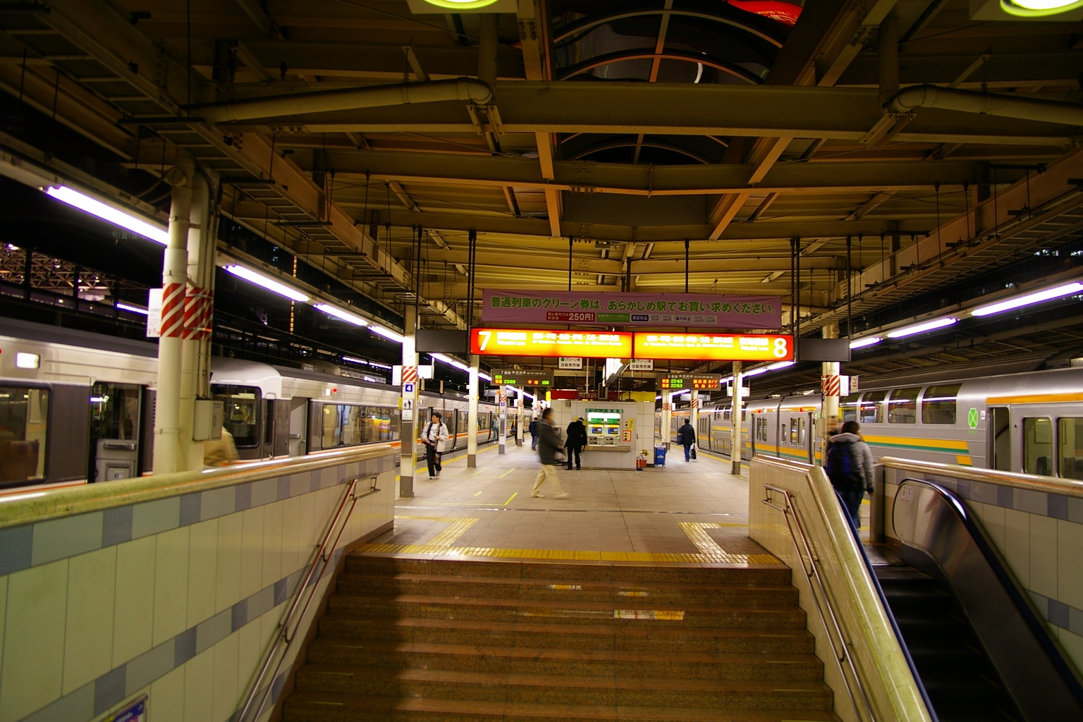 Tokyo station platform 3 lines 7 and 8.